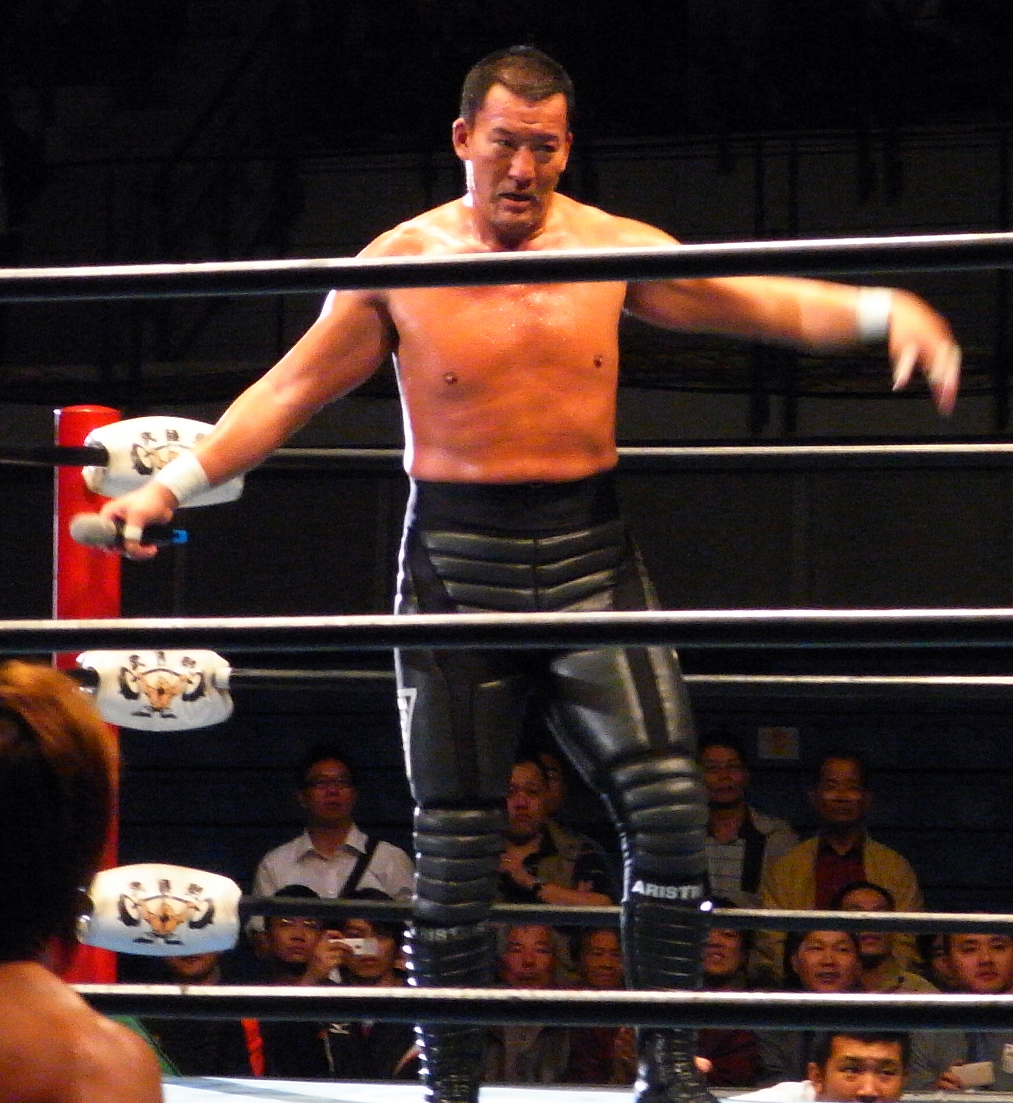 Masahiro Chono at AJPW "Pro-Wrestling Love in Taiwan 2010", the National Taiwan University Gymnasium, Taipei.